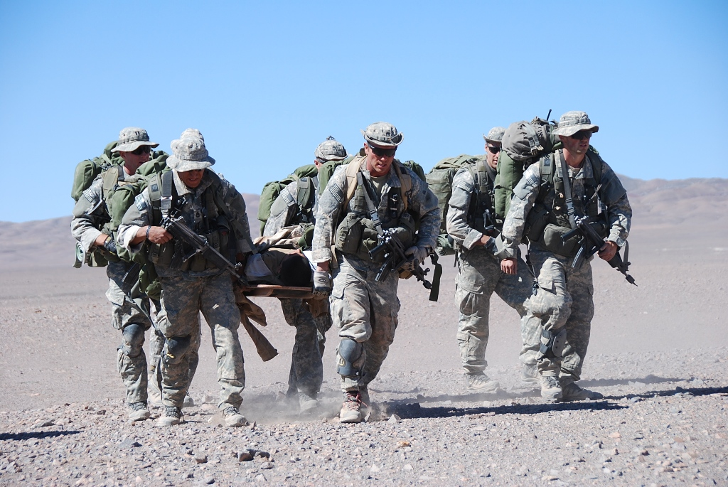 Members of the 75th Ranger Regiment, who comprise the U.S. Army team during the Chilean Atacama Desert International Patrolling Competition 2009, conduct a casualty evacuation as part of the competition. This competition offers an opportunity for different teams to compete and share patrolling techniques as well as the fraternal bonds that are found in many of the world's commando and special reconnaissance units.